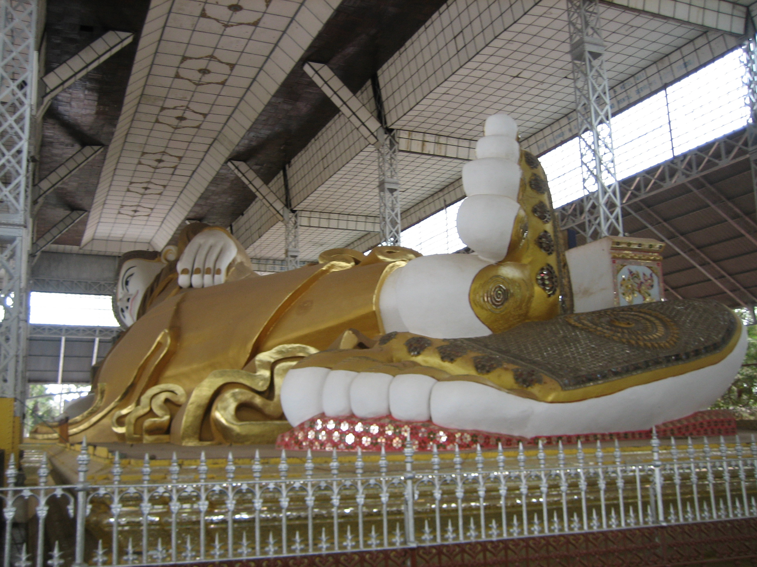 Lyaung-Daw-Mu Reclining Buddha in Bago, Myanmar